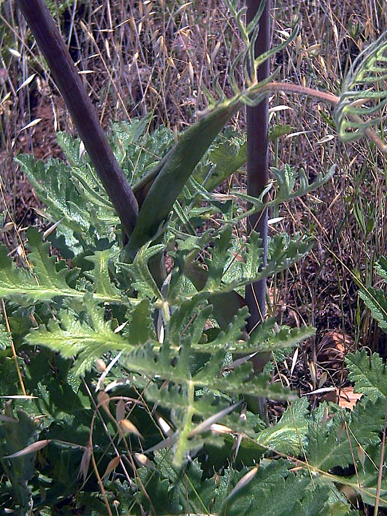 Thapsia villosa stem and leaves Puertollano, May, 24 , 2008.